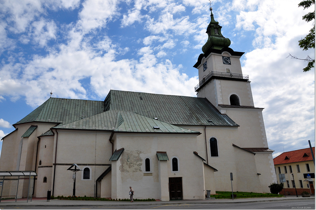 Catholic St. Bartholomew's Church in Prievidza